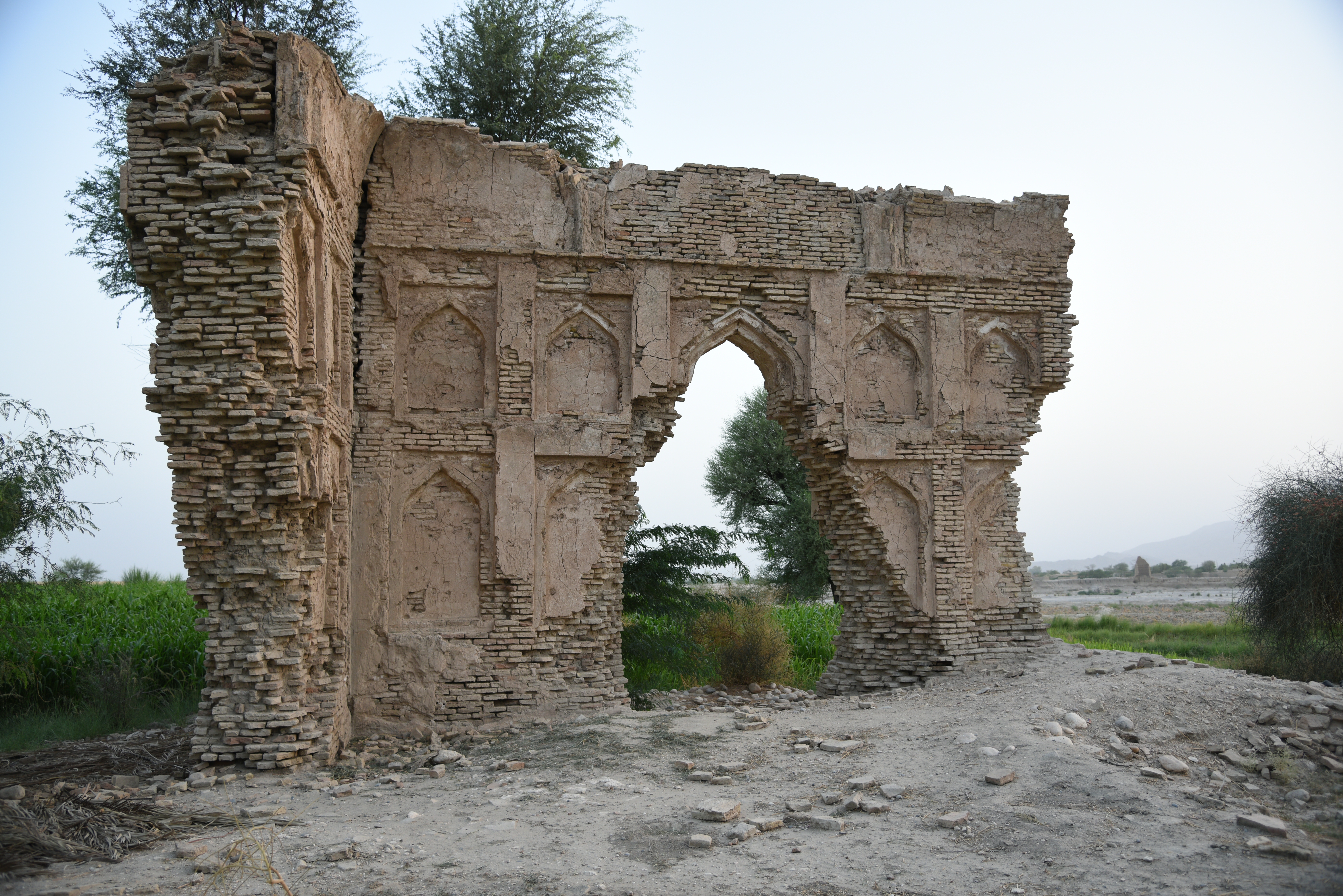 Archaeological Site of Mehrgarh This is a photo of a monument in Pakistan identified as the BA-28